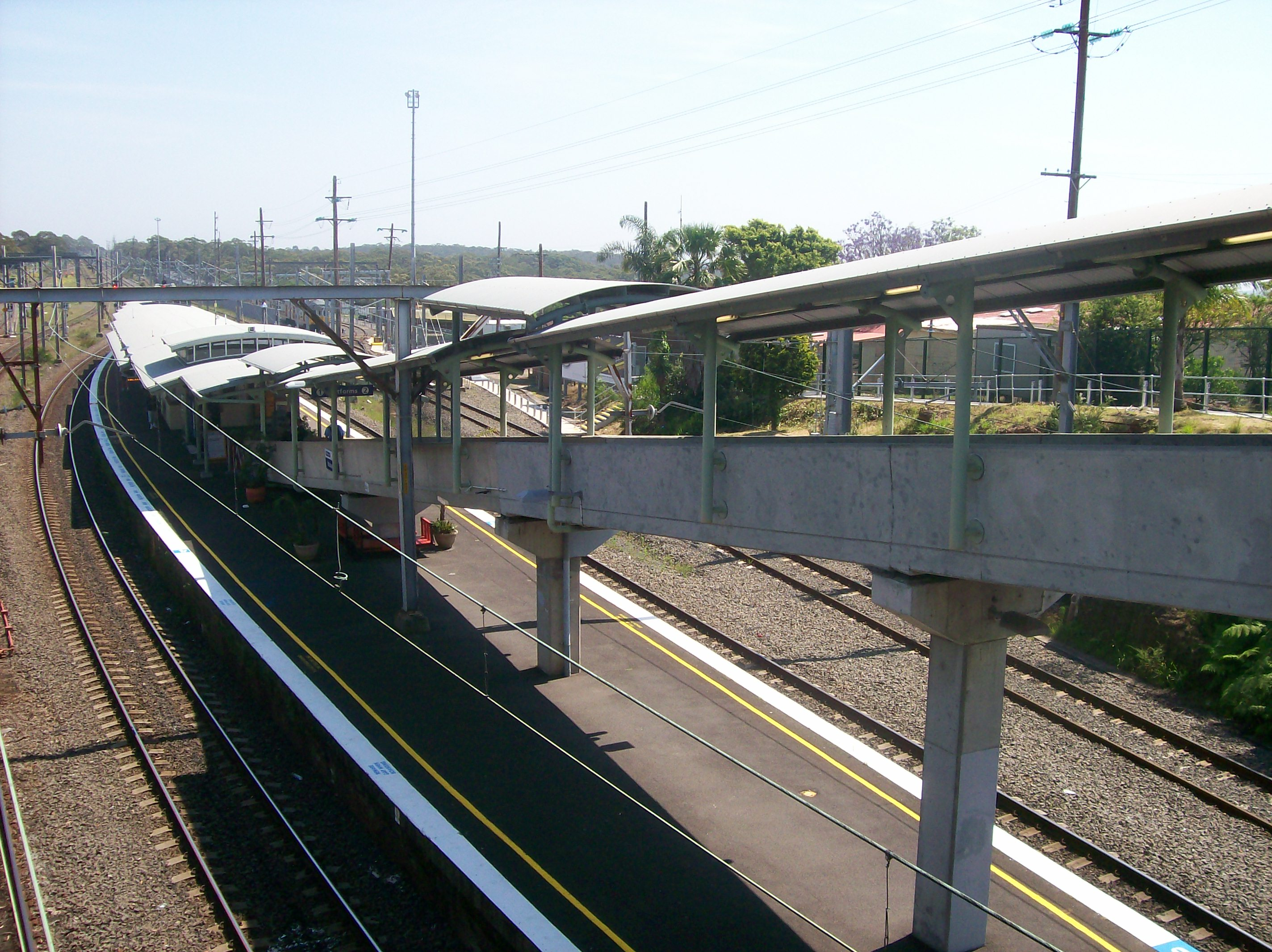 Waterfall railway station